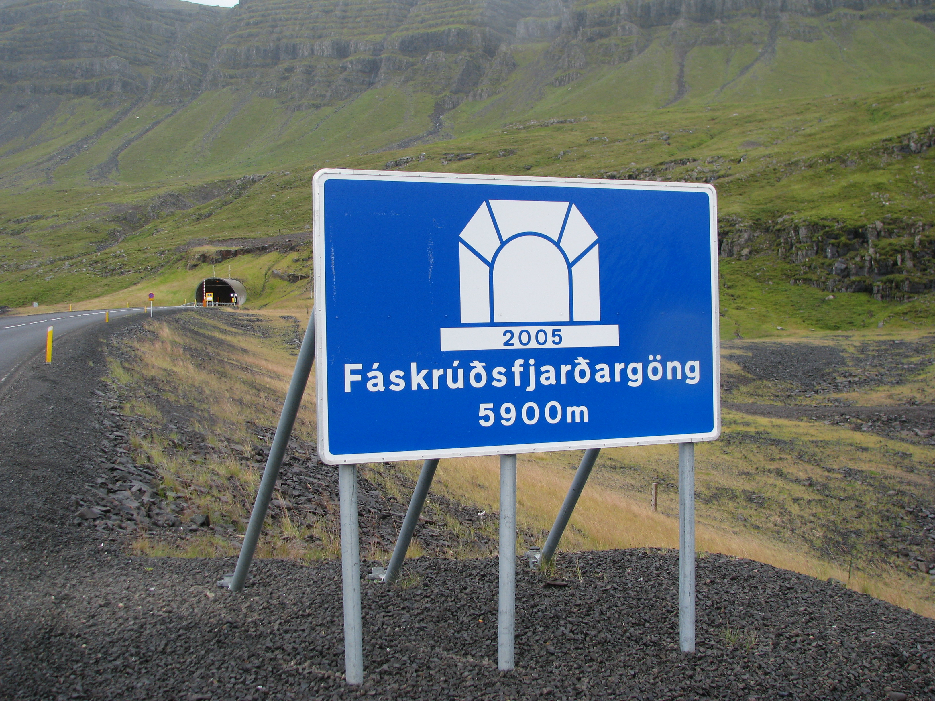 Tunnel, Iceland